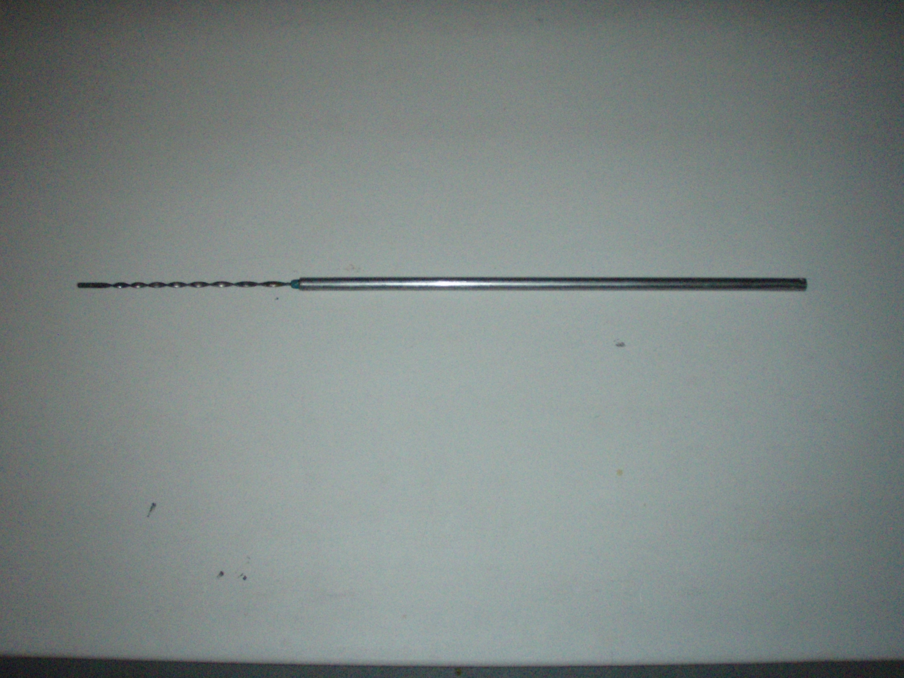 upvc window spiral balancer